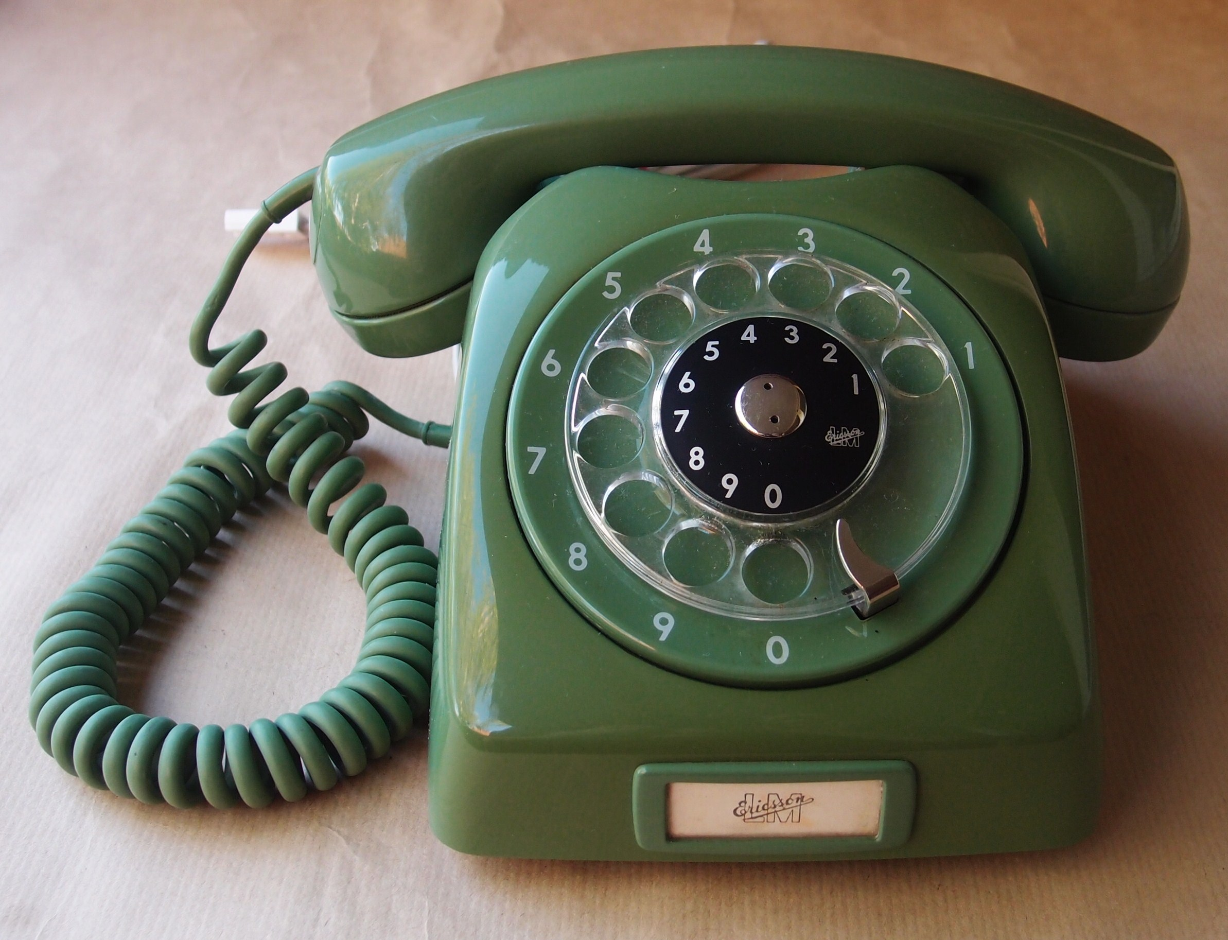 Ericsson Dialog telepone in green